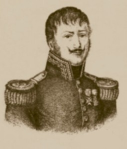 Picture of the French general Curely